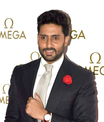 Abhishek Bachchan at Omega's bash in 2015